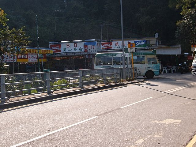 Luk Keng, North District, Hong Kong. Photo taken by myself (User:Sl) on December 2004. 香港北區的鹿頸。